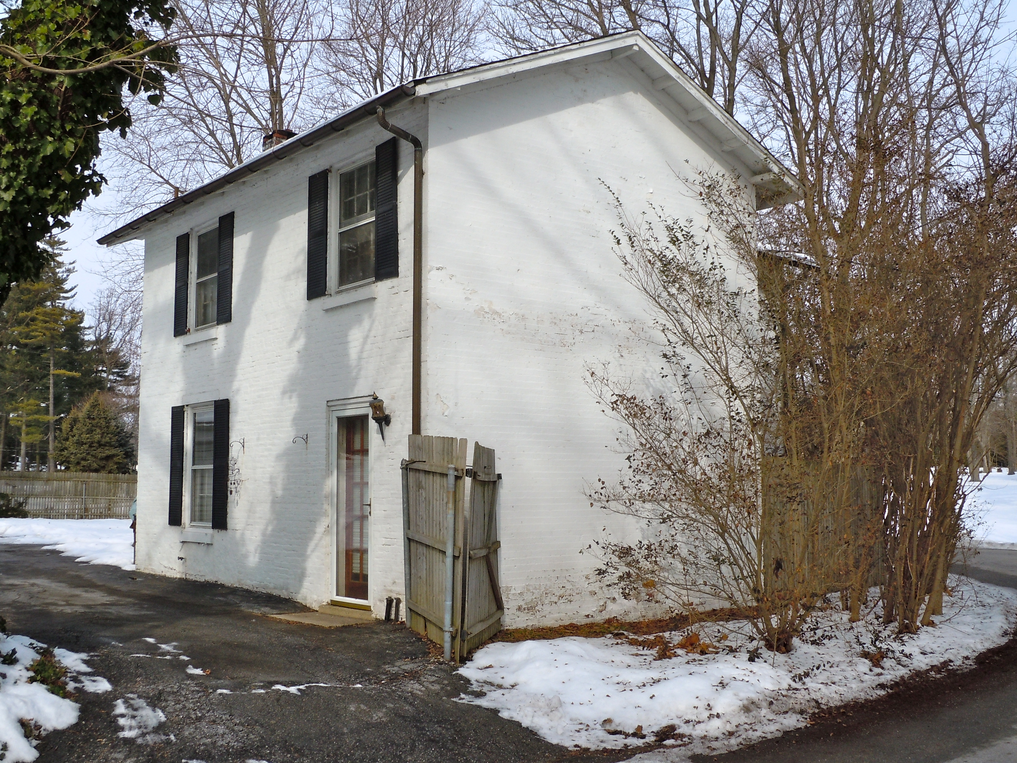 Kirkland Station on the NRHP since November 10, 1983, at 1370 Kirkland Avenue, West Whiteland Township, Chester County, Pennsylvania. Nice little RR station, now used as a house. A big old victorian mansion across the street at 1375 Kirkland is not on the NRHP (funny)